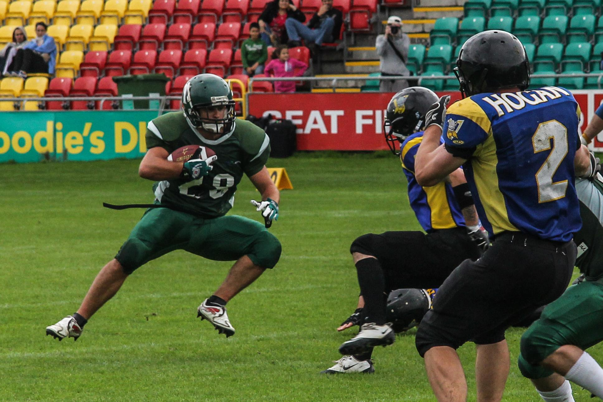 Belfast Trojans Vs UL Vikings Shamrock Bowl 2012